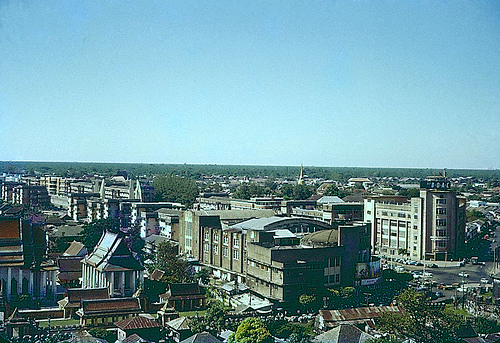 bkk street taken by my father 1956